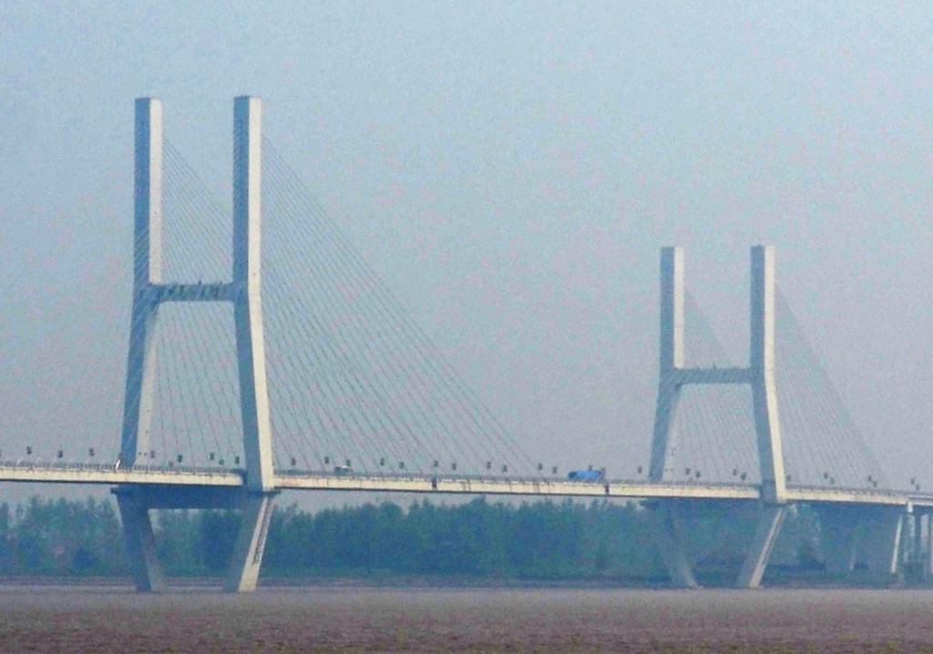 Jingzhou Changjiang Bridge